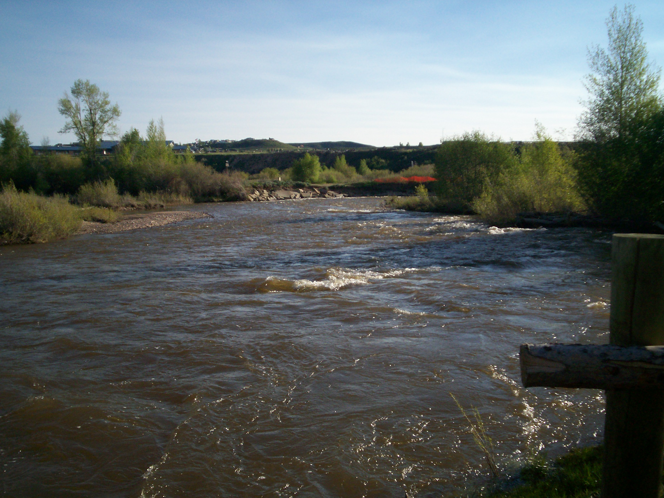 Bear River flowing through Bear River State Park, Wyoming